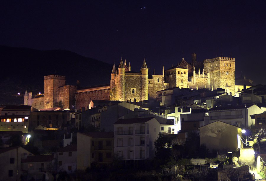 Guadalupe de noche.